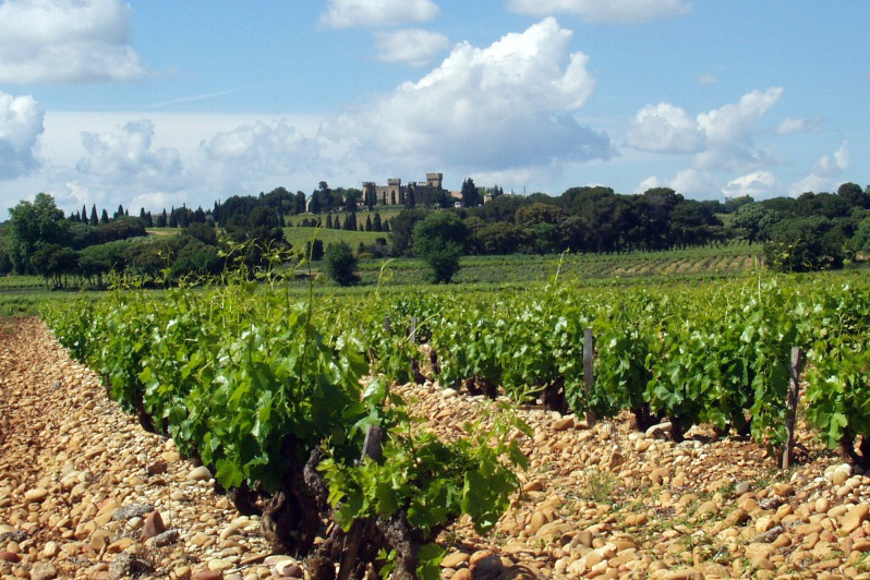 Vineyard and château near Châteuneuf-du-Pape, southern France